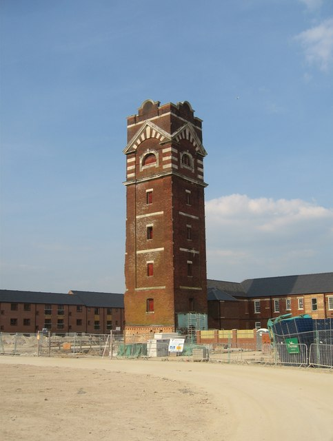 Water Tower - Visible for Miles The boiler house chimney didn't survive.